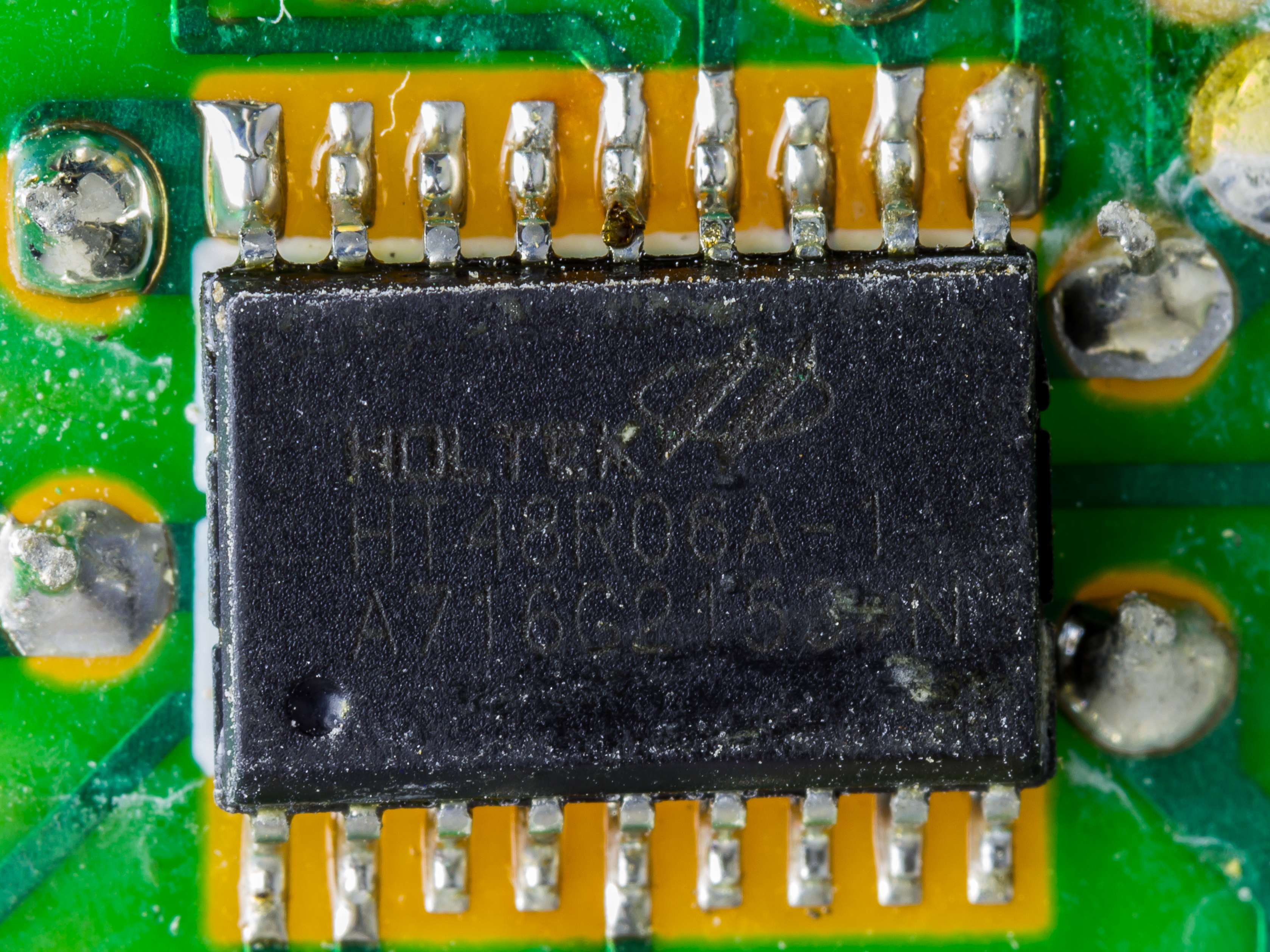 Control unit of a Halogen bulb Torchère - Holtek HT48R06A-1. 18-pin SOP package